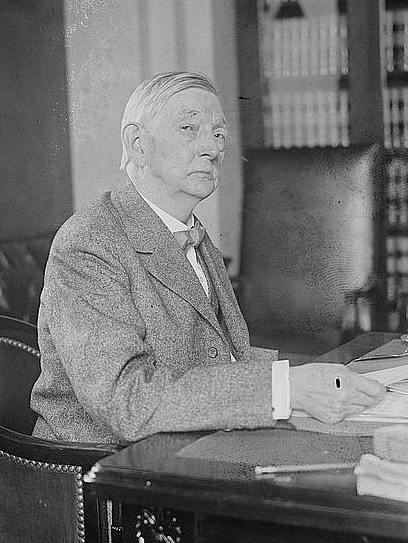 William Joel Stone in 1917